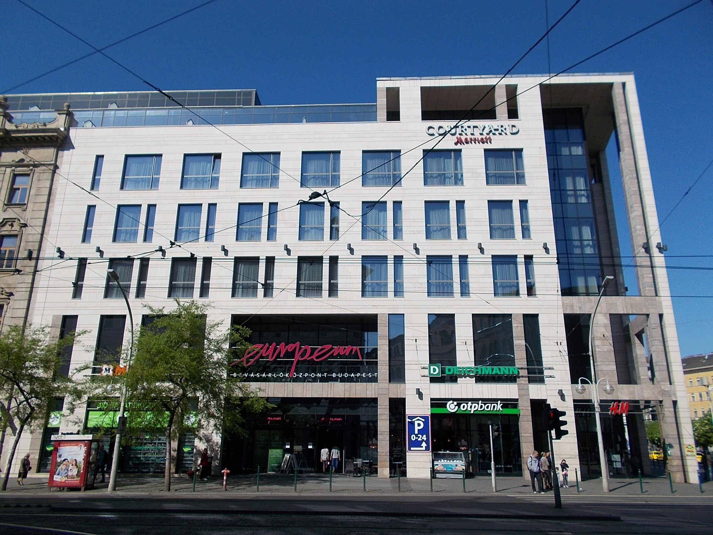 Europeum Shopping Center and Parking Garage. - Budapest District VIII., Hungary.